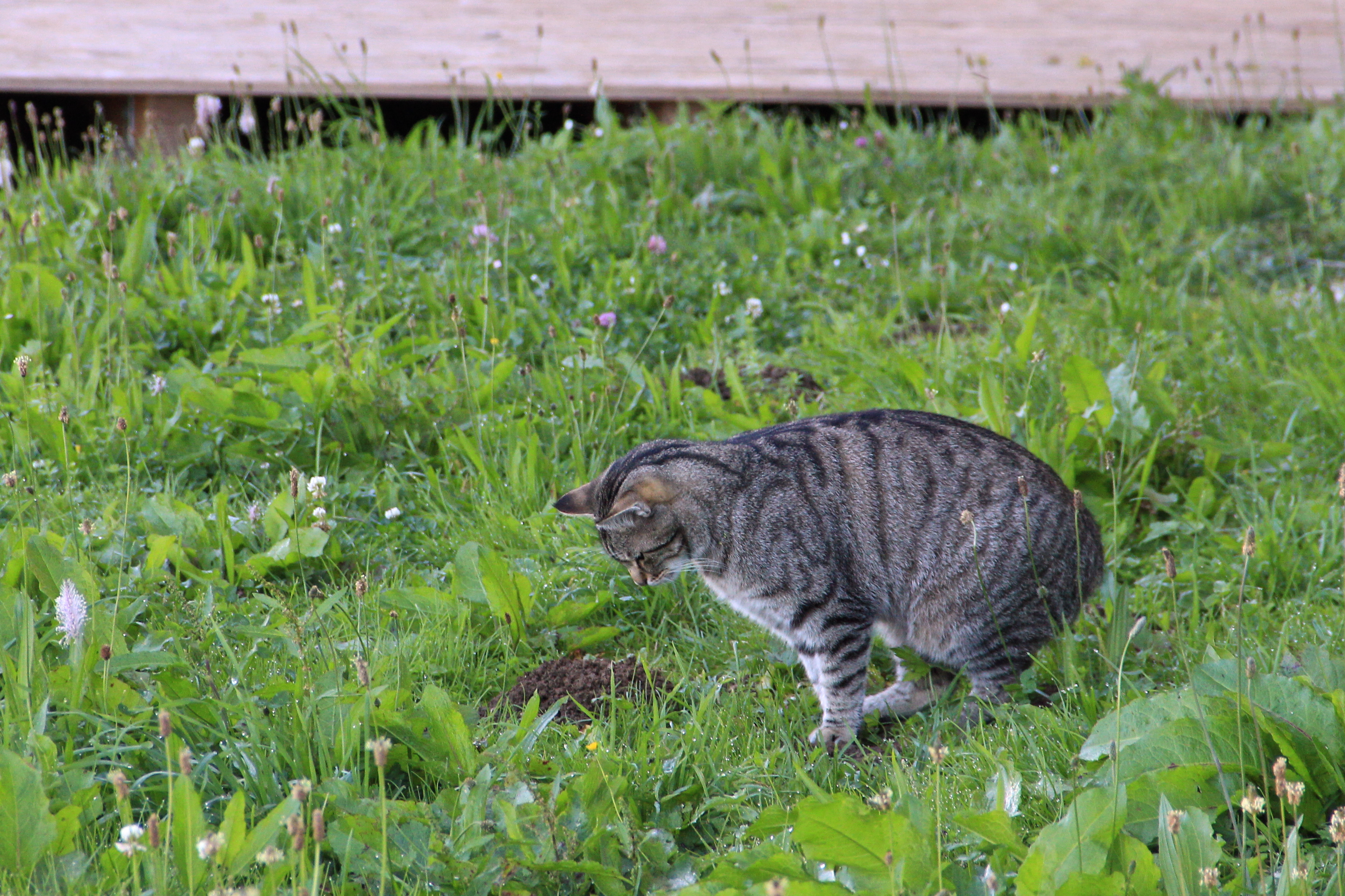 A cat is waiting for a mouse.